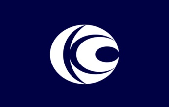 Flag of Kawachi Ibaraki